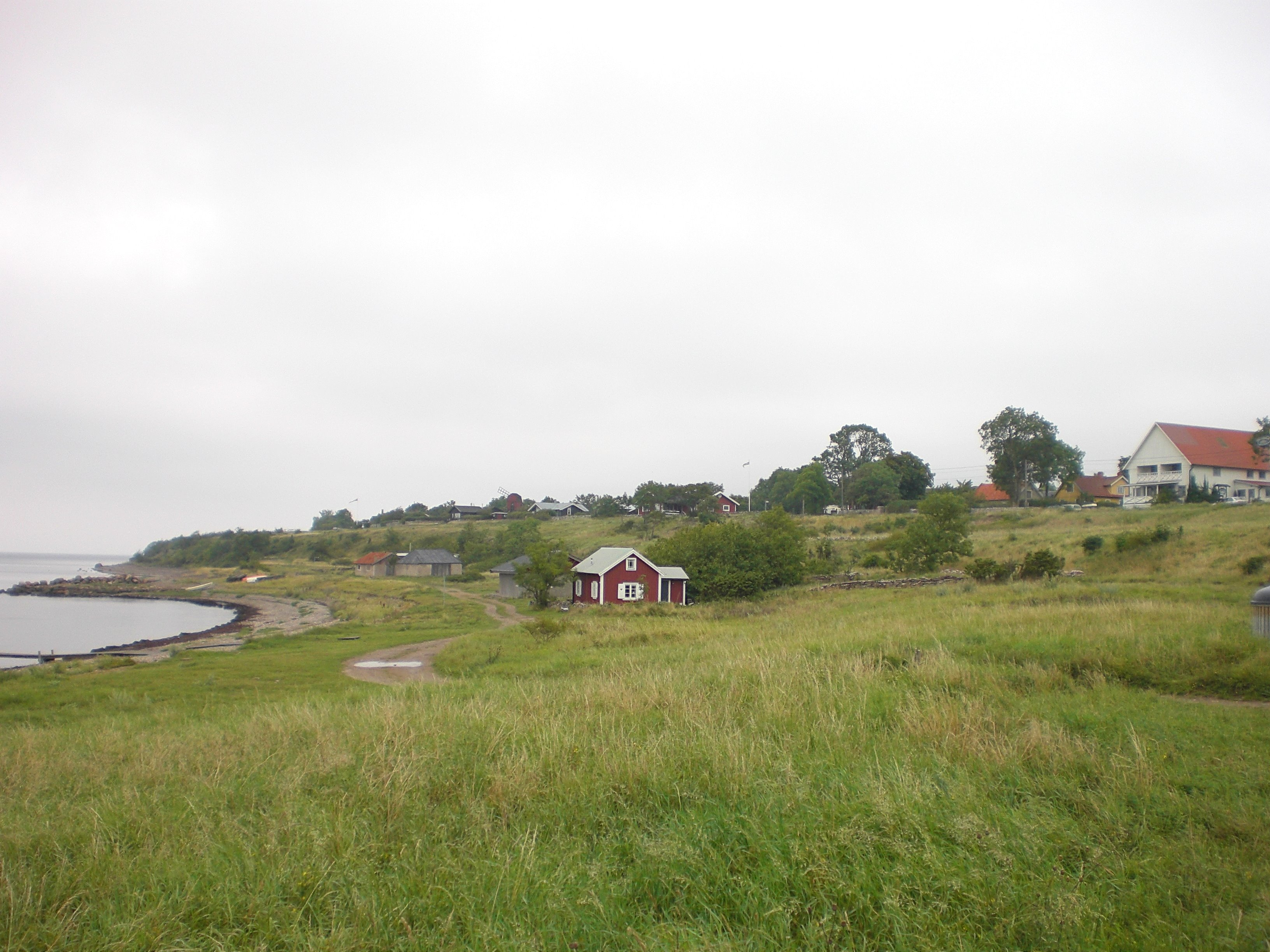 Äleklinta, Öland